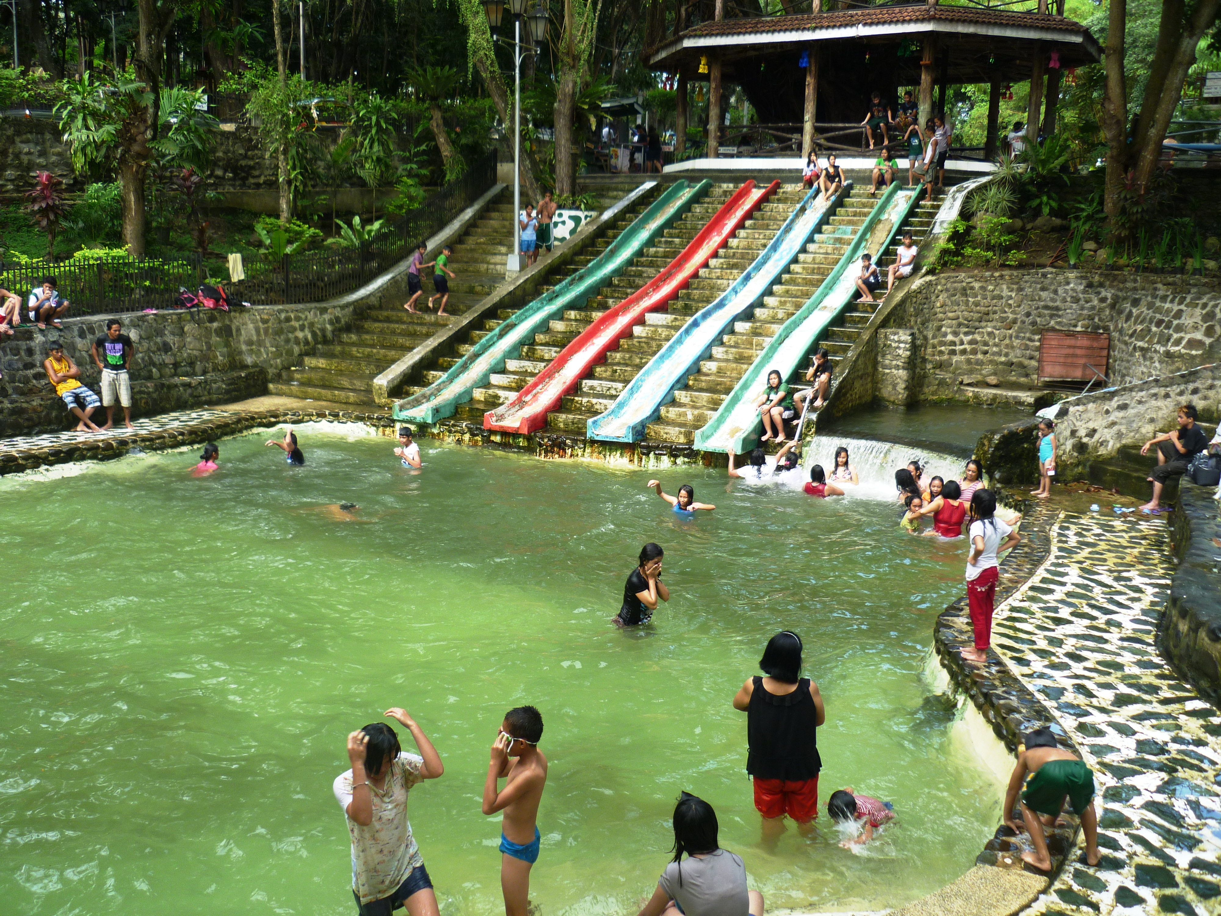 Pasonaca Main Pool